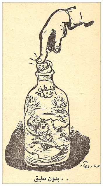 "The neck of the bottle - the Straits of Tiran" Rose al Youssef, Egypt, May 29, 1967